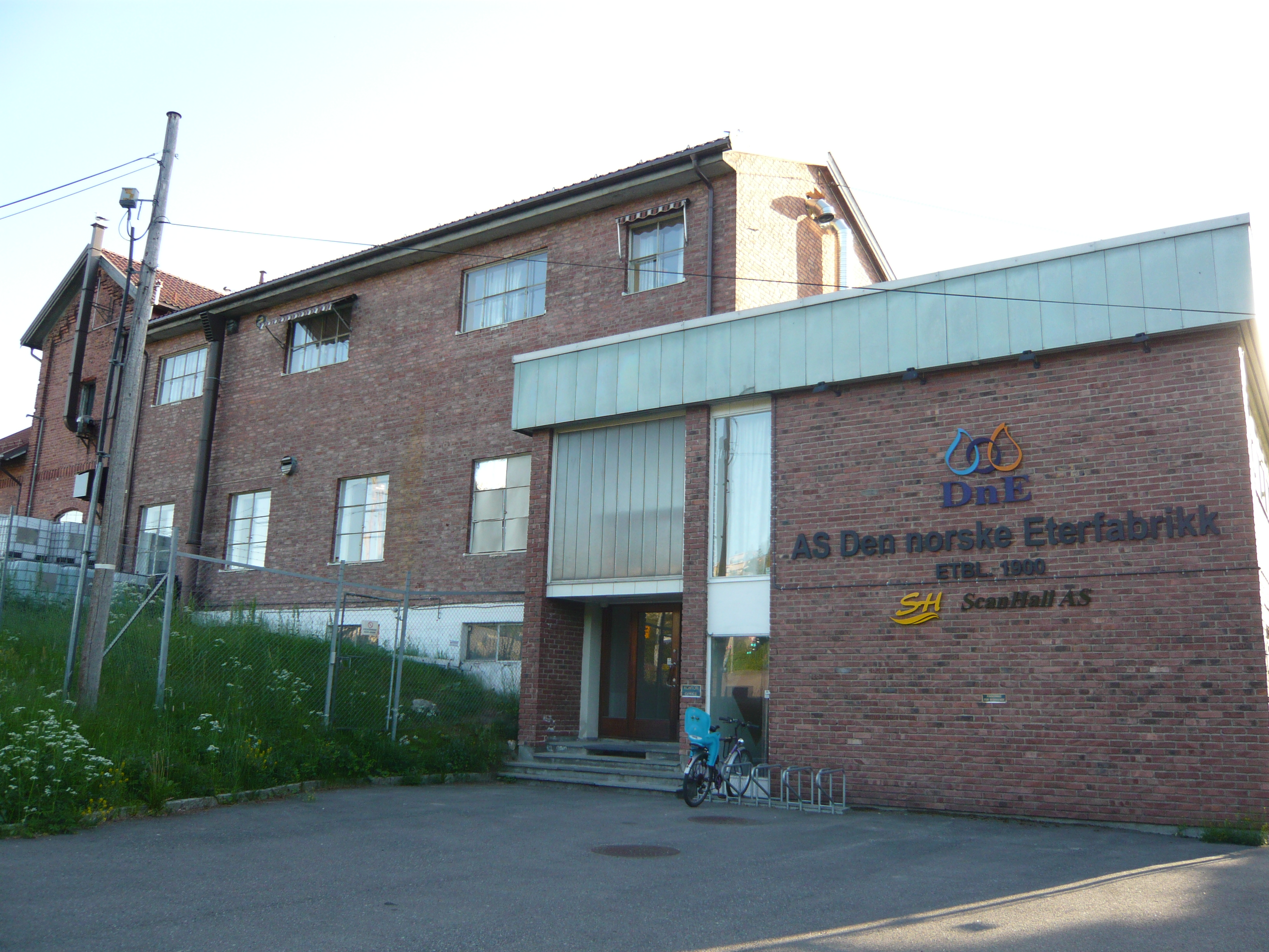 Den norske Eterfabrik in Bogerud, Oslo, Norway.